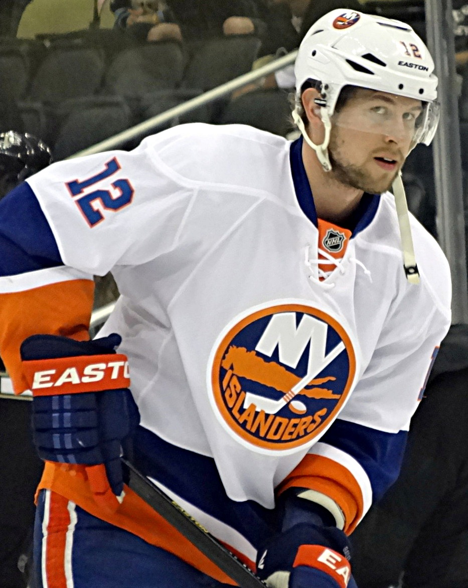 New York Islanders forward Josh Bailey during round one, game five of the 2013 Stanley Cup playoffs against the Pittsburgh Penguins, May 9, 2013 at Consol Energy Center.